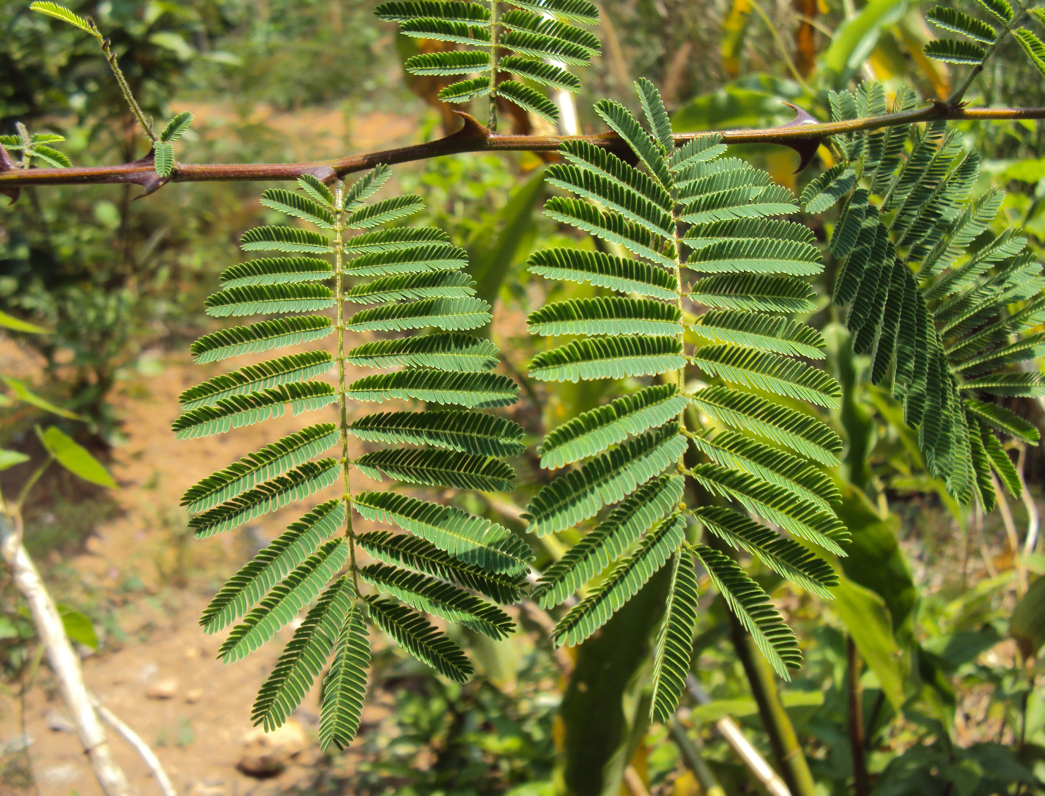 Acacia catechu